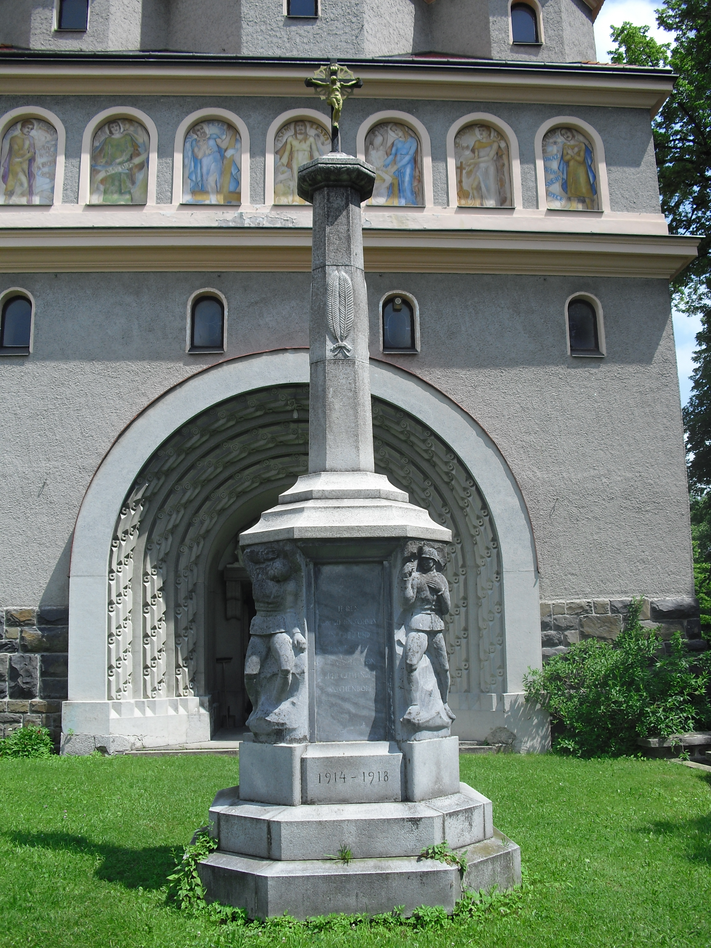 Odry, Nový Jičín District, Czech Republic, part Tošovice.